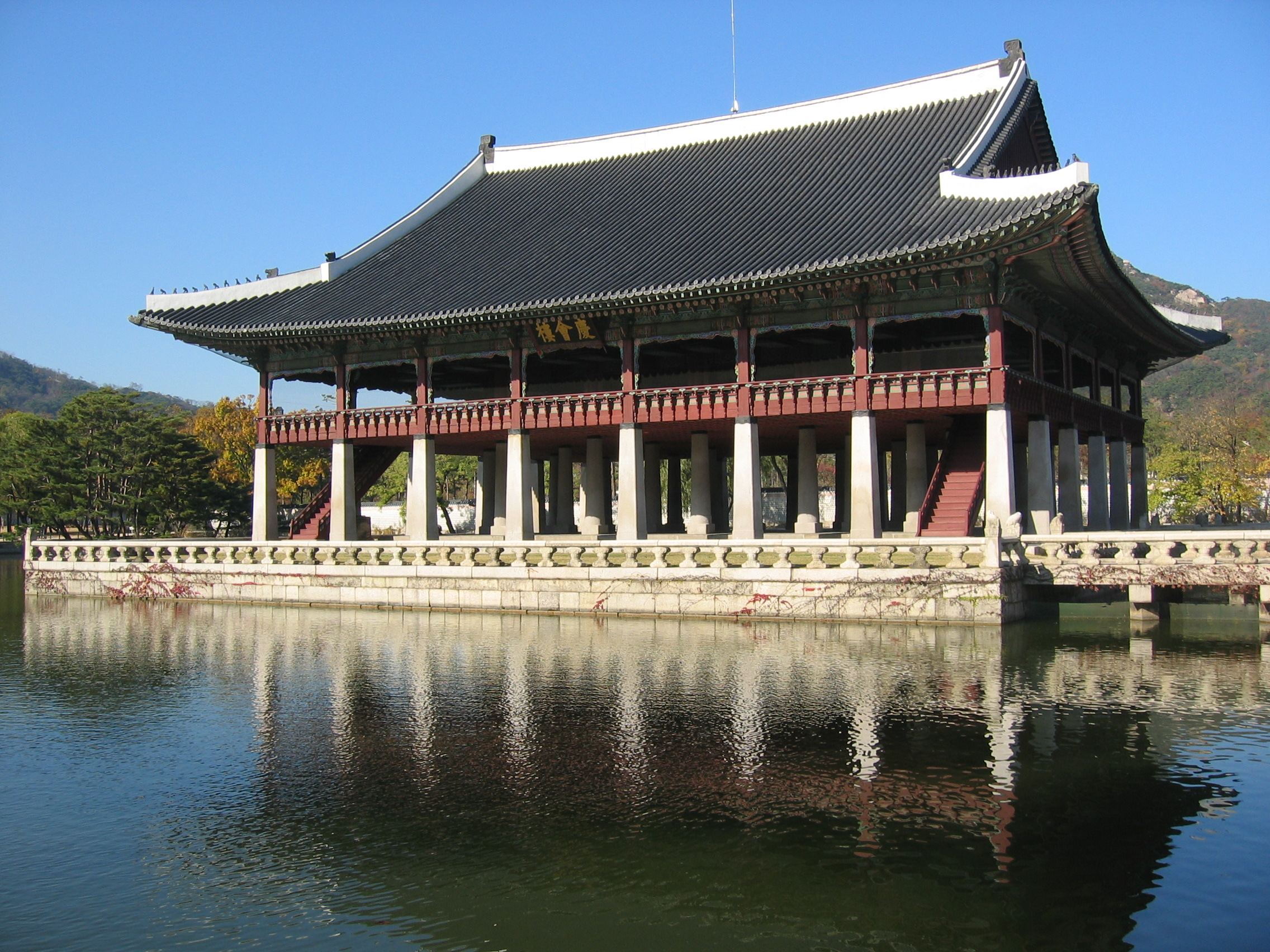 Gyeonghoeru(pavllion) in Gyeongbokgung Palace in Seoul, South Korea. The pavilion are designated as the 224th National Treasure of South Korea.